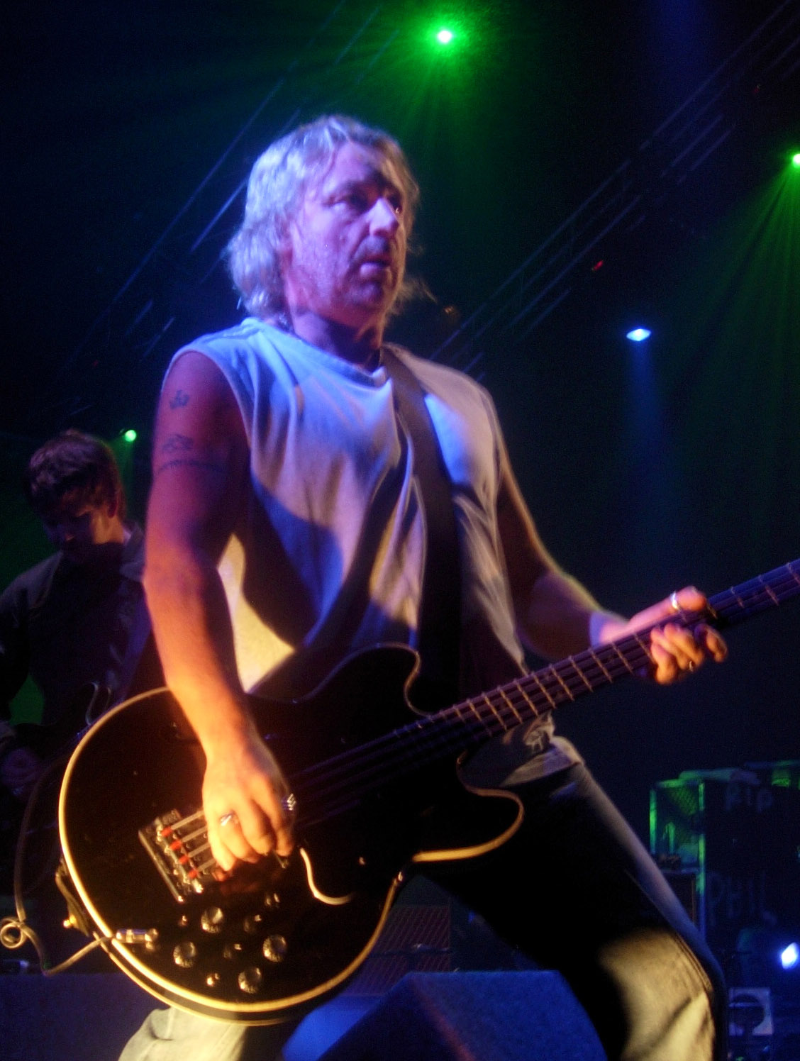 Image of Peter Hook taken at a New Order gig in Manchester Nov 05 by James Sheridan.